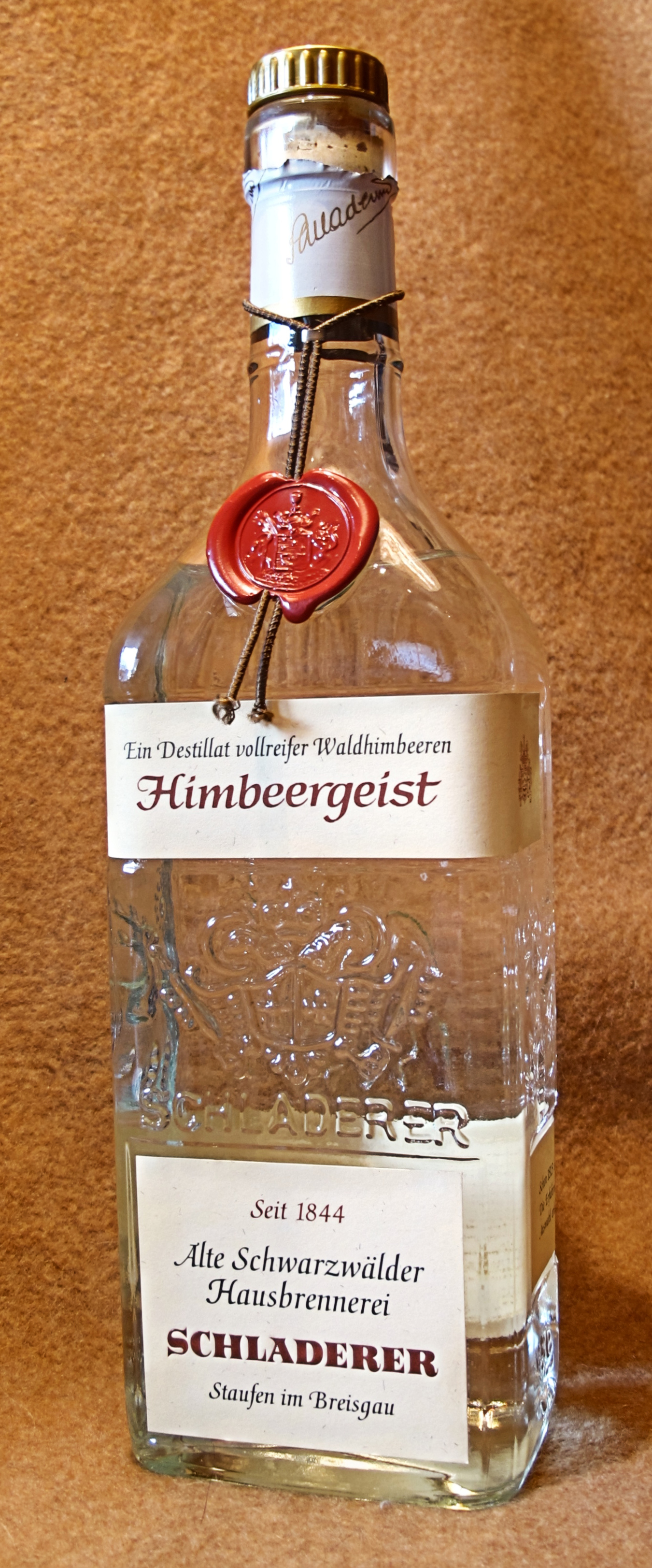 A bottle of Himbeergeist, 42 percent alcohol by volume, in a typical square bottle with a red seal.